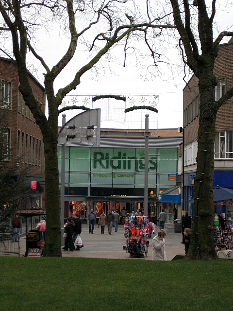 Ridings Shopping Centre The Cathedral precinct entrance to the Ridings has been given a makeover to mark the centre's 25th anniversary.